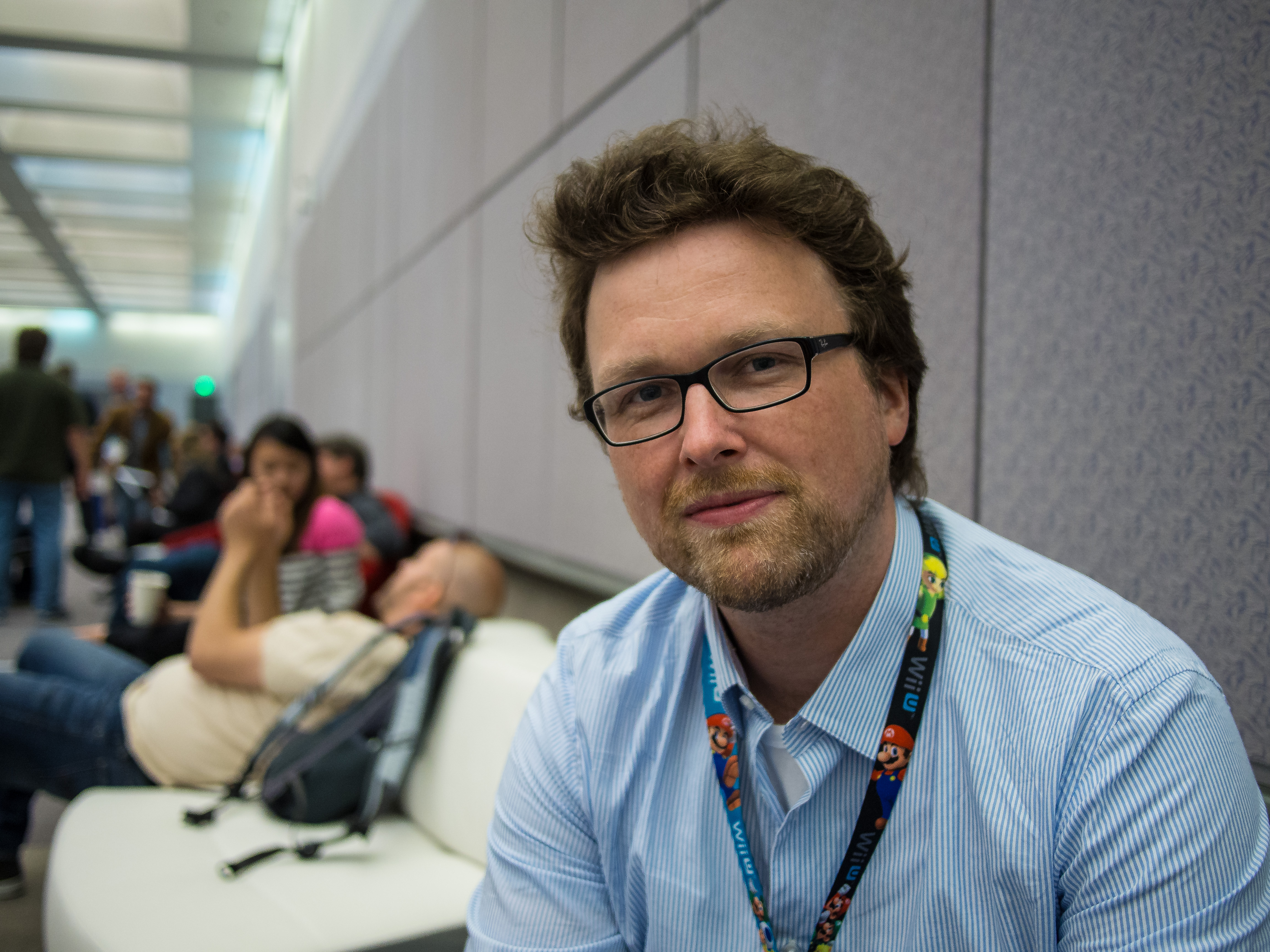 Ragnar Tørnquist at E3 2013